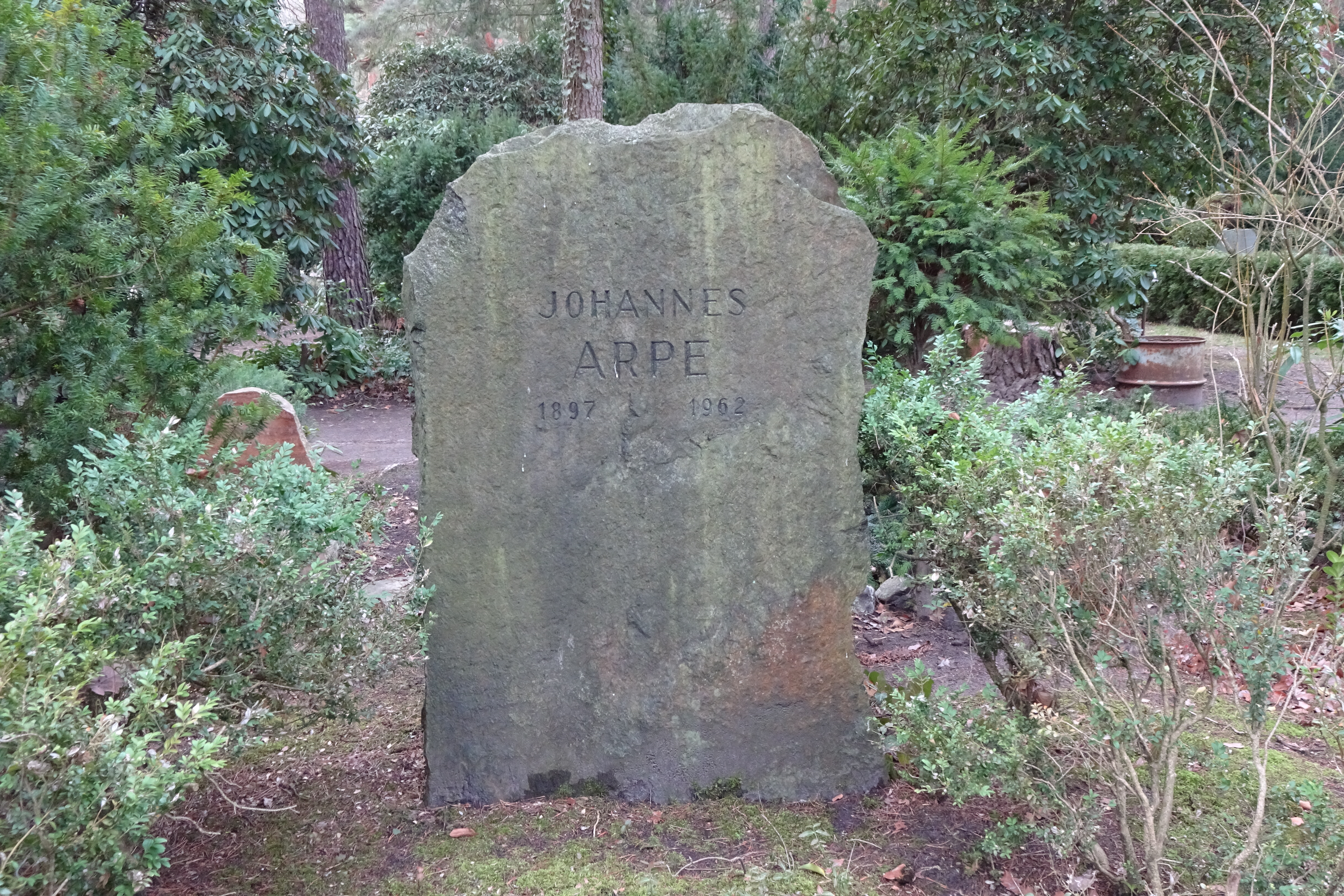 Grave of German actor Johannes Arpe in Waldfriedhof Kleinmachnow in Kleinmachnow near Berlin